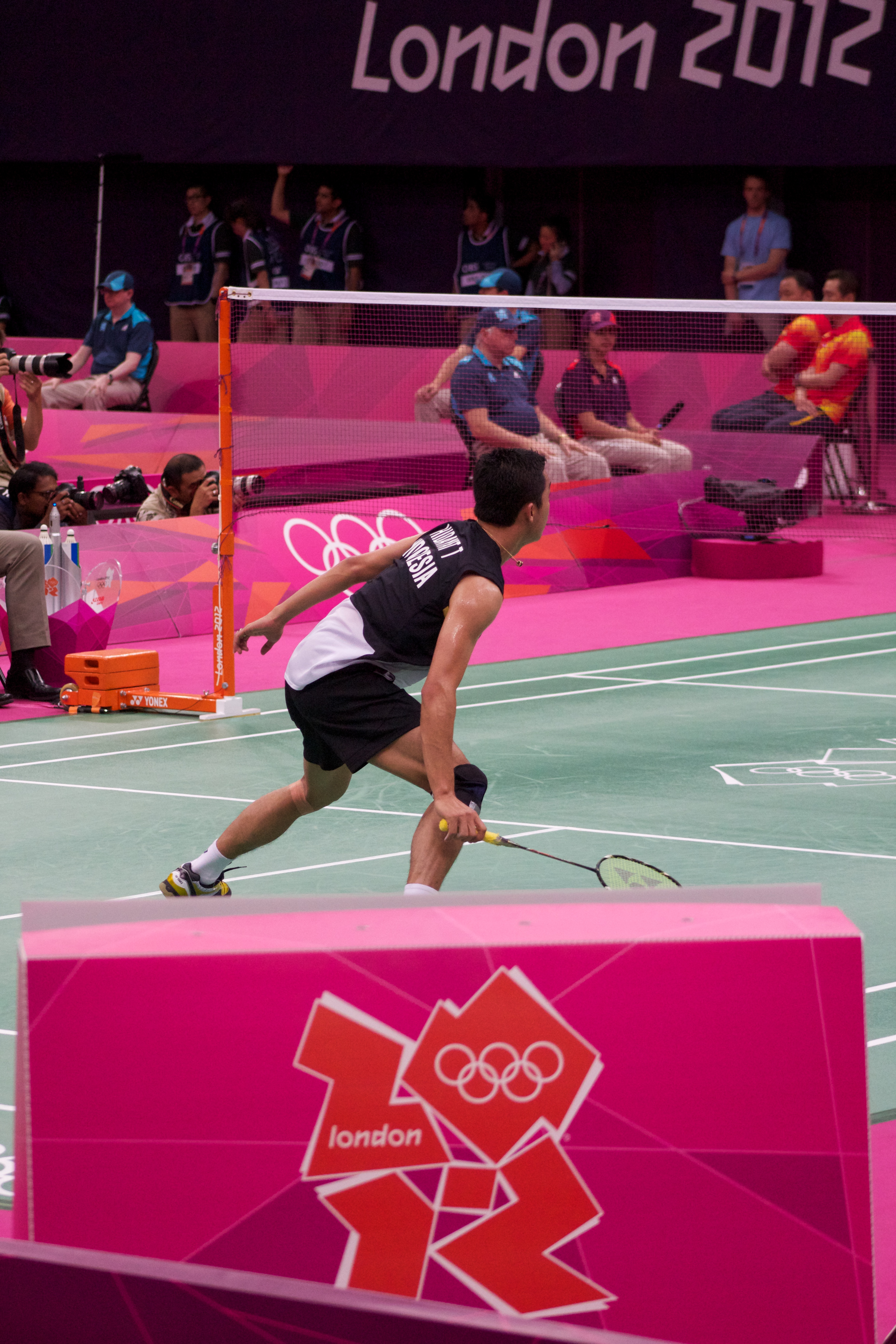 Badminton at the 2012 Summer Olympics